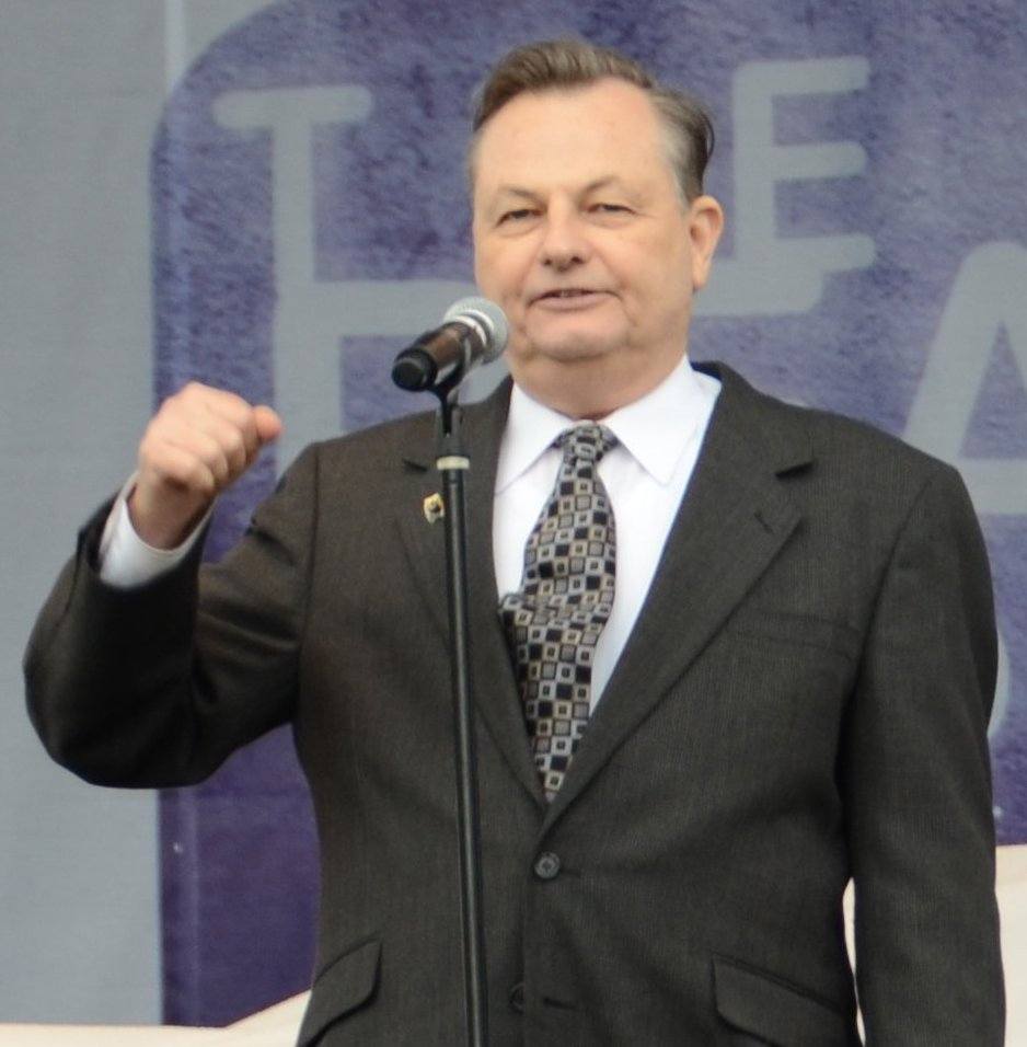 Fred Edwords speaking at the Reason Rally on the National Mall in Washington, DC on March 24, 2012.